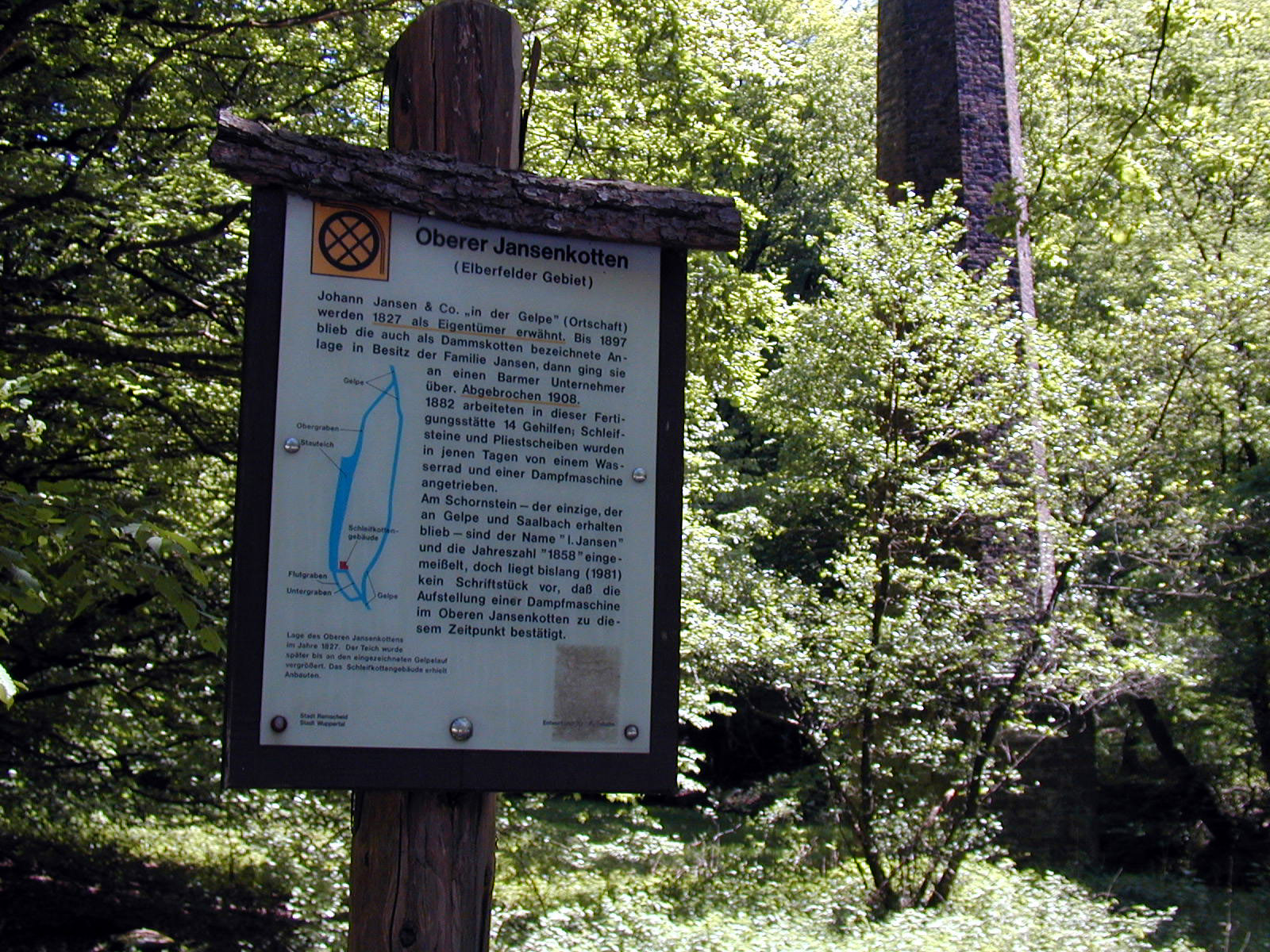 Local heritage monument Oberer Jansenkotten in the Gelpe valley, Wuppertal